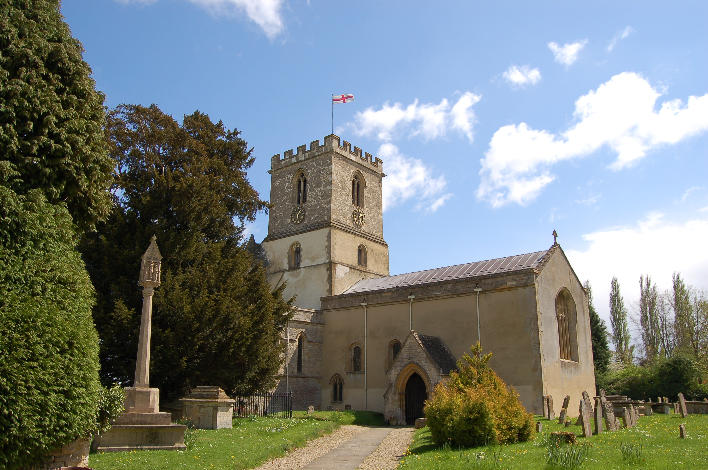 St Michael's parish church, Stanton Harcourt, Oxfordshire, seen from the northwest